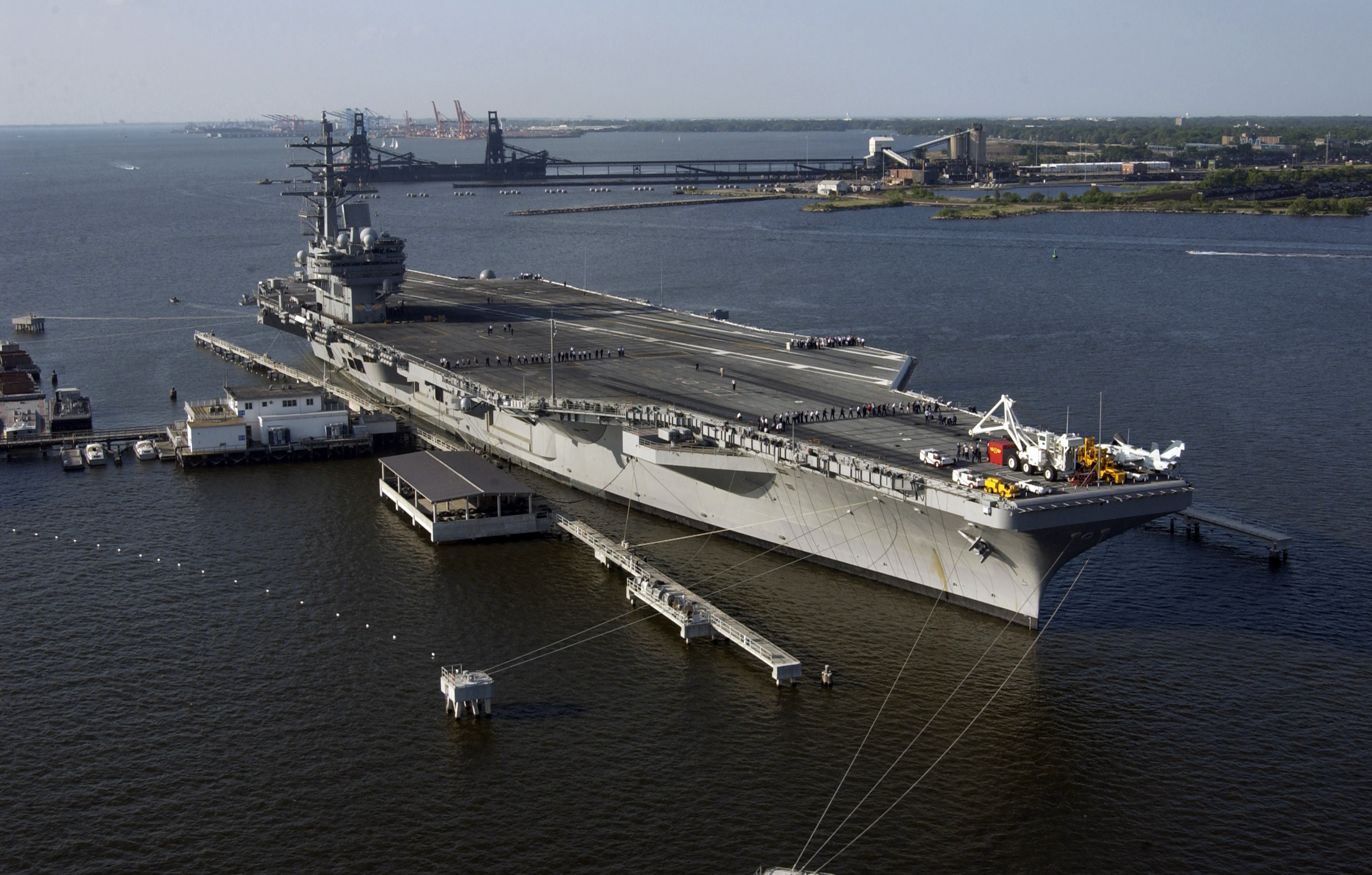 Elizabeth River, Va. (May 14, 2004) - The U.S. Navy's newest aircraft carrier USS Ronald Reagan (CVN 76) prepares for deperming at Naval Station Norfolk Lambert's Point Deperming Station, near Portsmouth, Va. Deperming is a special procedure for erasing the permanent magnetism from ships and submarines to camouflage against magnetic detection vessels and enemy marine mines. U.S. Navy photo by Journalist 1st Class Jeremy L. Wood (RELEASED)